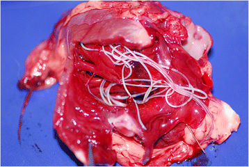 Adult Dirofilaria immitis in the right ventricle of a golden jackal in Romania